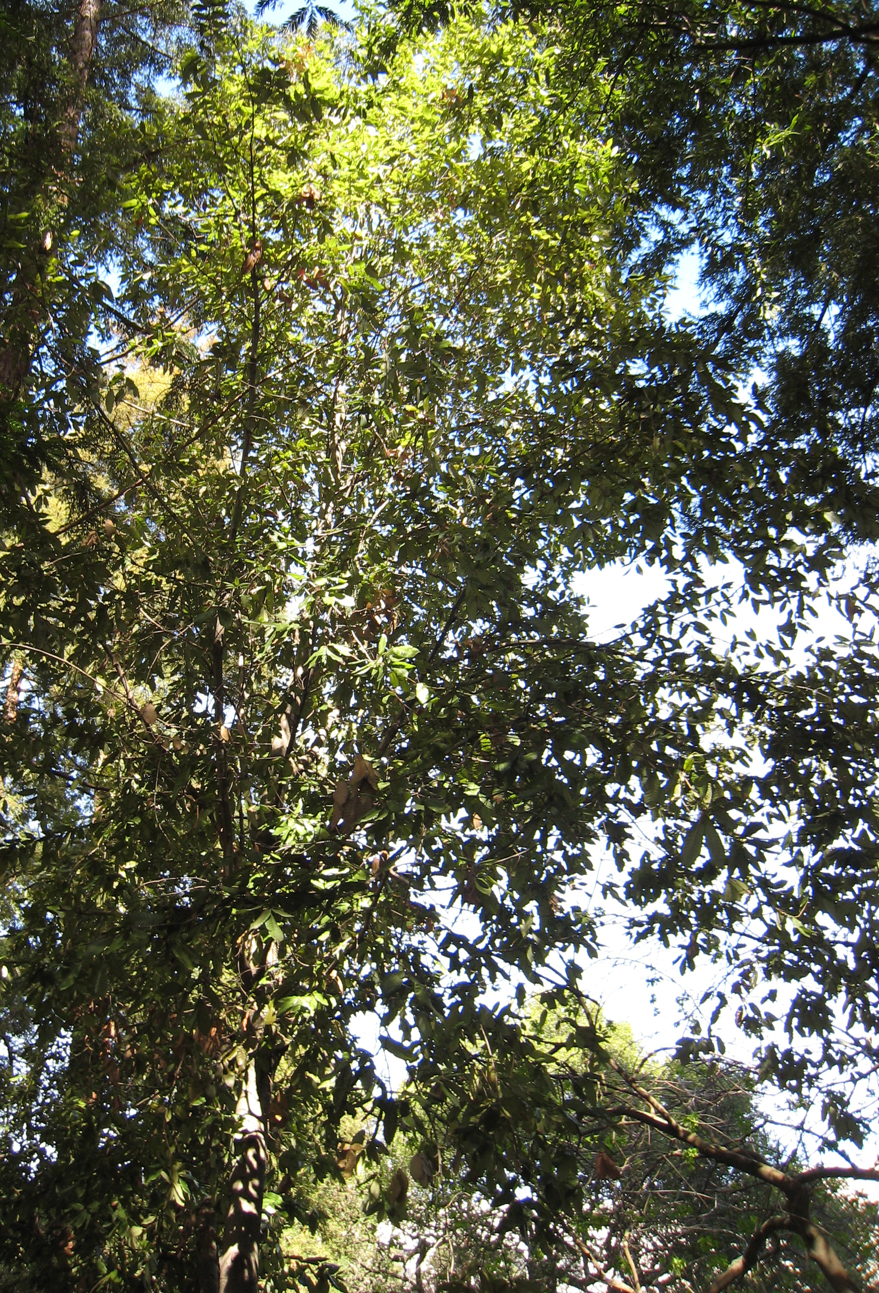 Notholithocarpus densiflorus, Berkeley, California